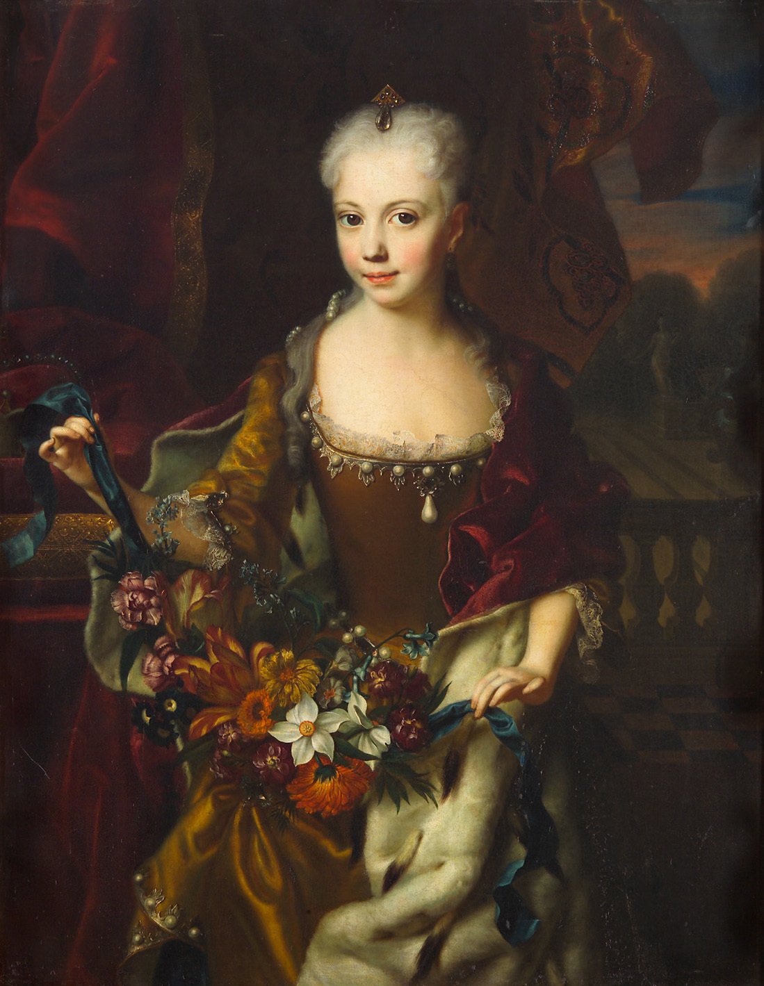 Archduchess Maria Anna (1718-1744), daughter of Charles VI, Holy Roman Emperor, at the age of nine